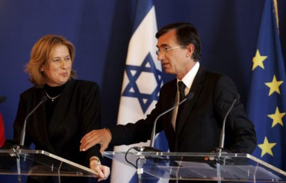 French minsiter of Foreign Affairs and his colleage Livni of Israel